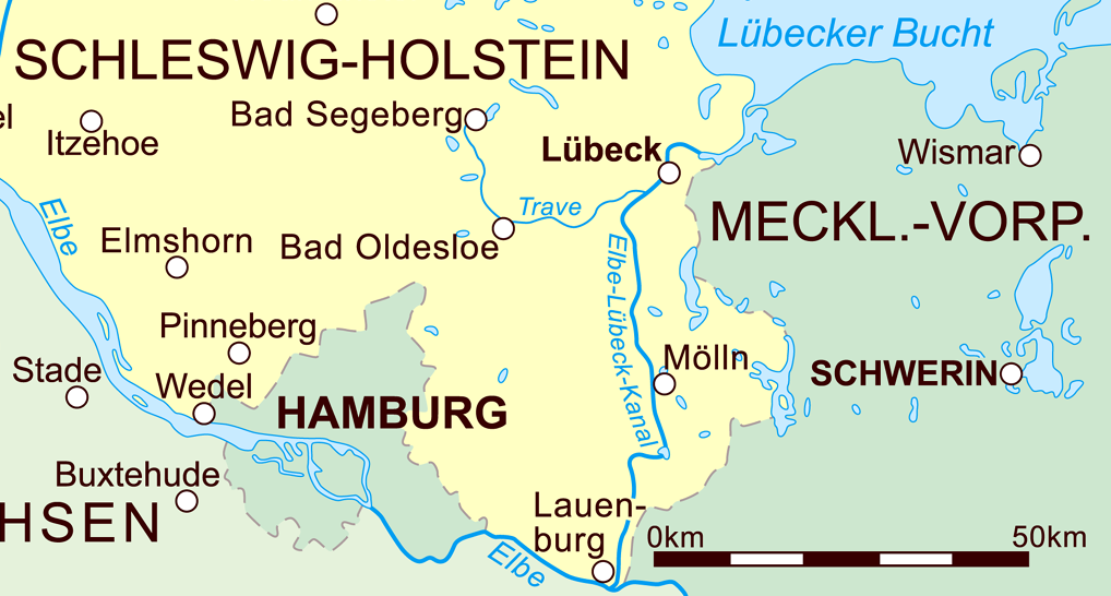 A map of southern Schleswig-Holstein and western Mecklenburg-Vorpommern in Germany, featuring the rivers Elbe and Trave and the Elbe–Lübeck Canal